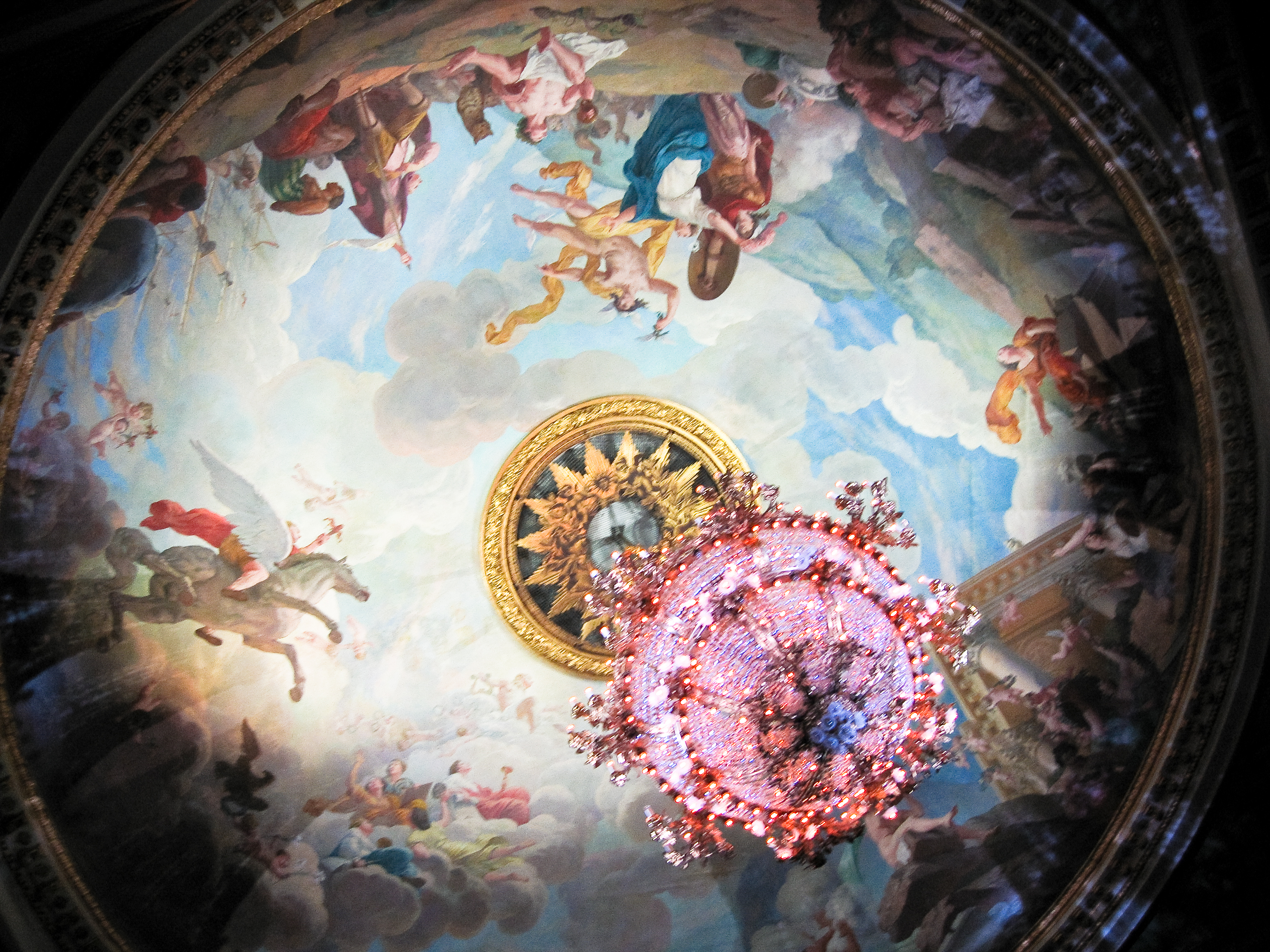 Detail of Grand Theatre, Bordeaux, France.